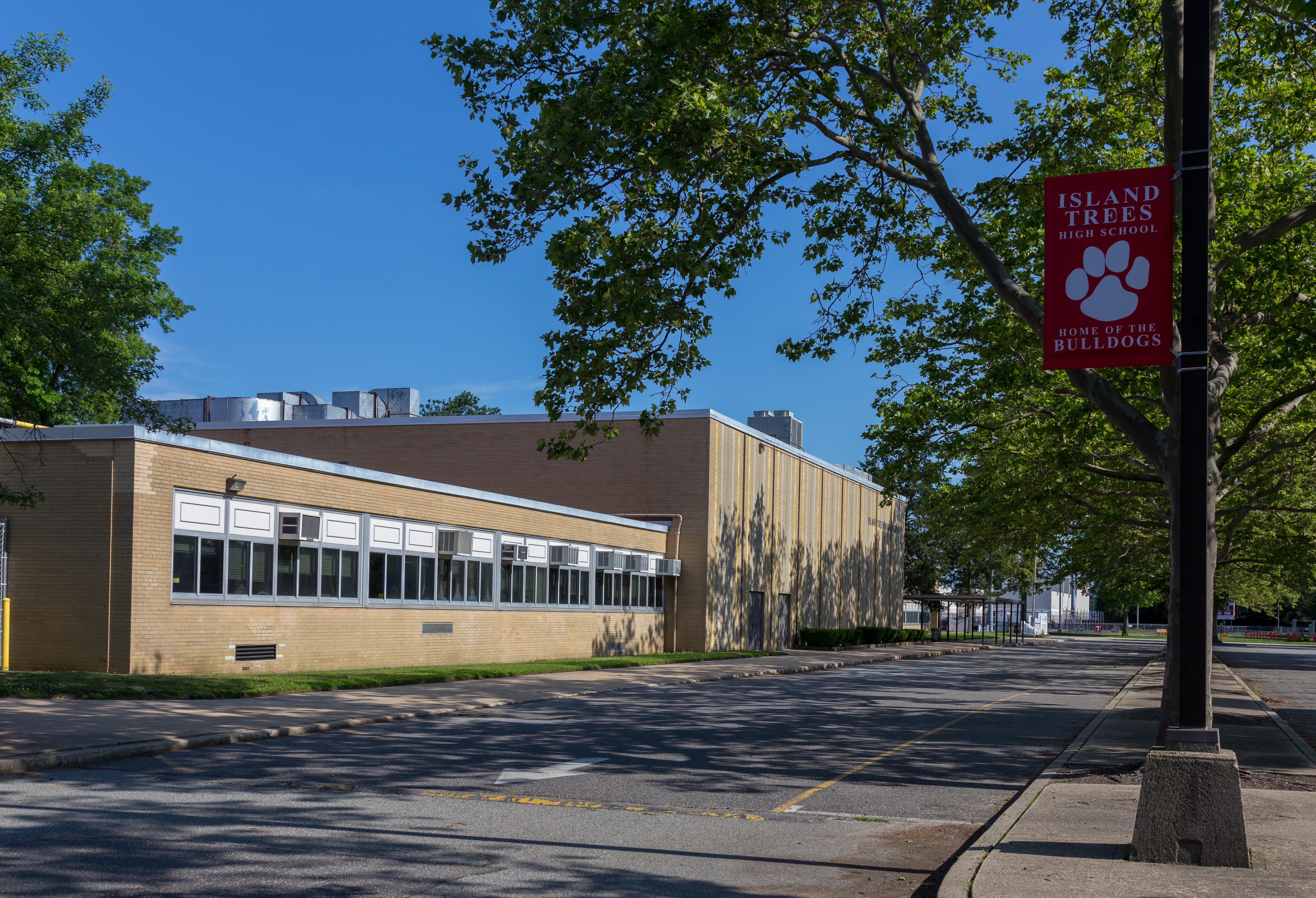 Island Trees High School, Straight Lane, Levittown, New York